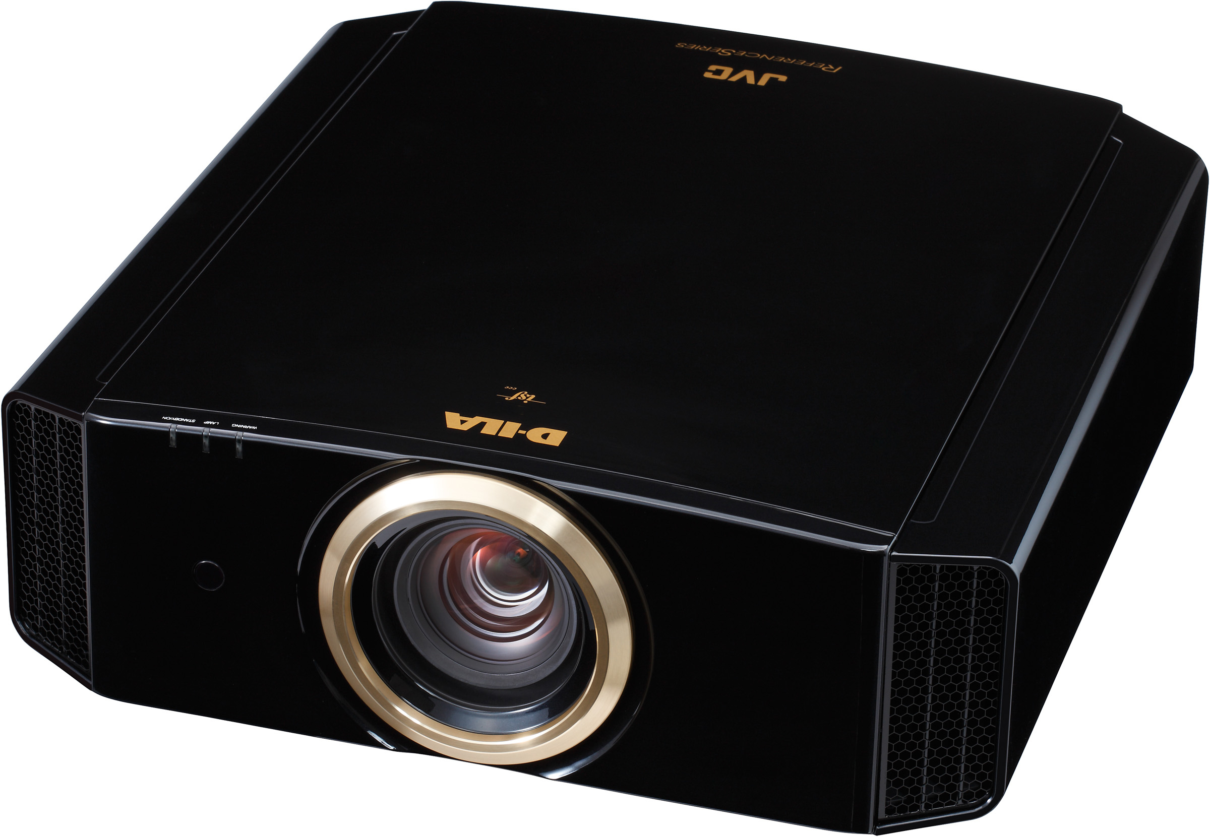 D-ILA is JVC's variation of the LcOS display technology known for high contrast ratio. The architecture of the form factor is still in use (as of 2016 550 750 950 models)